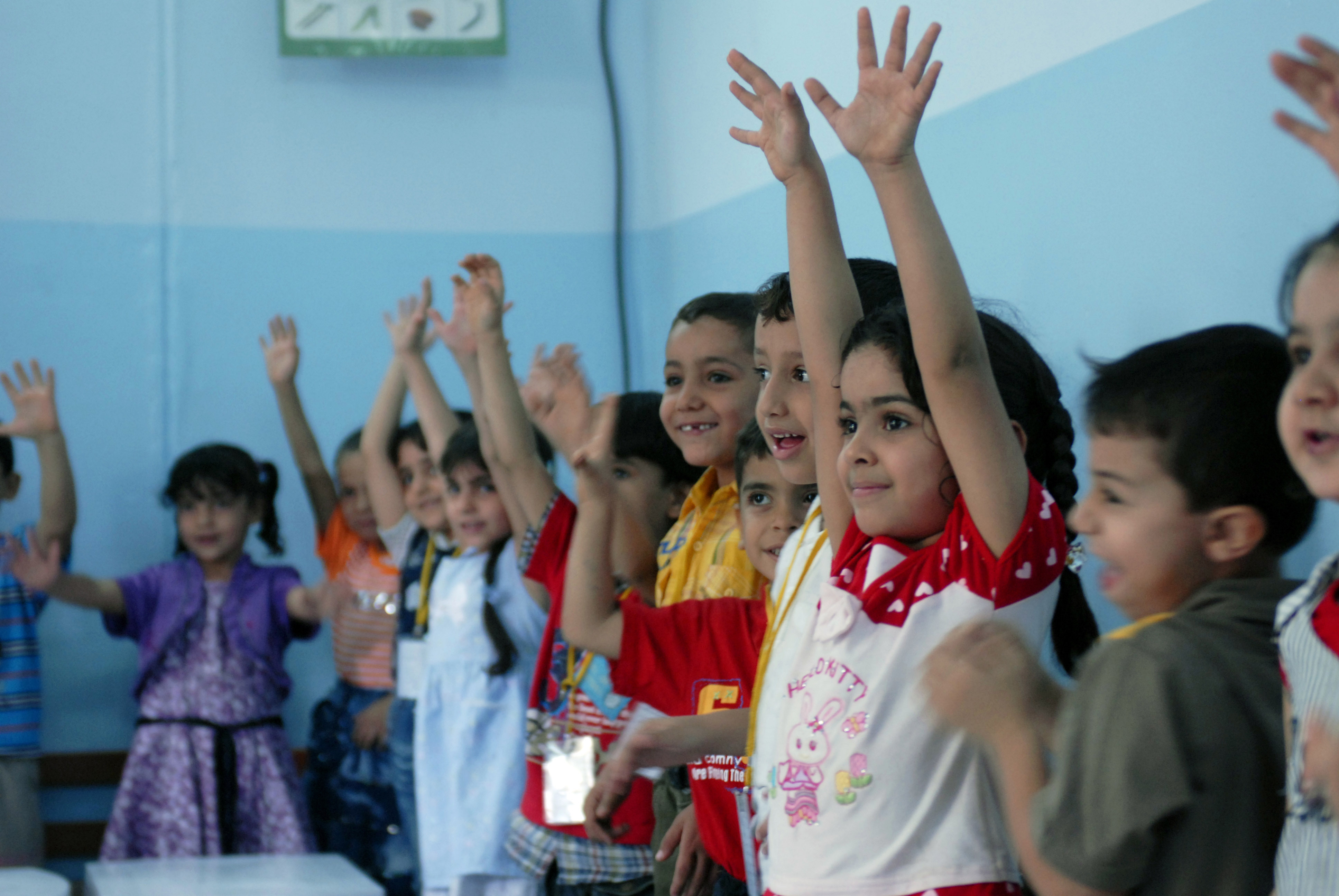 Children attending St. Efram Elementary welcome Soldiers to their classroom before being surprised with care packages, Oct. 22, in Basra, Iraq. The two schools sponsored by the Chaldean Church are the only elementry schools in Iraq to combine children of mixed religions in one learning environment.